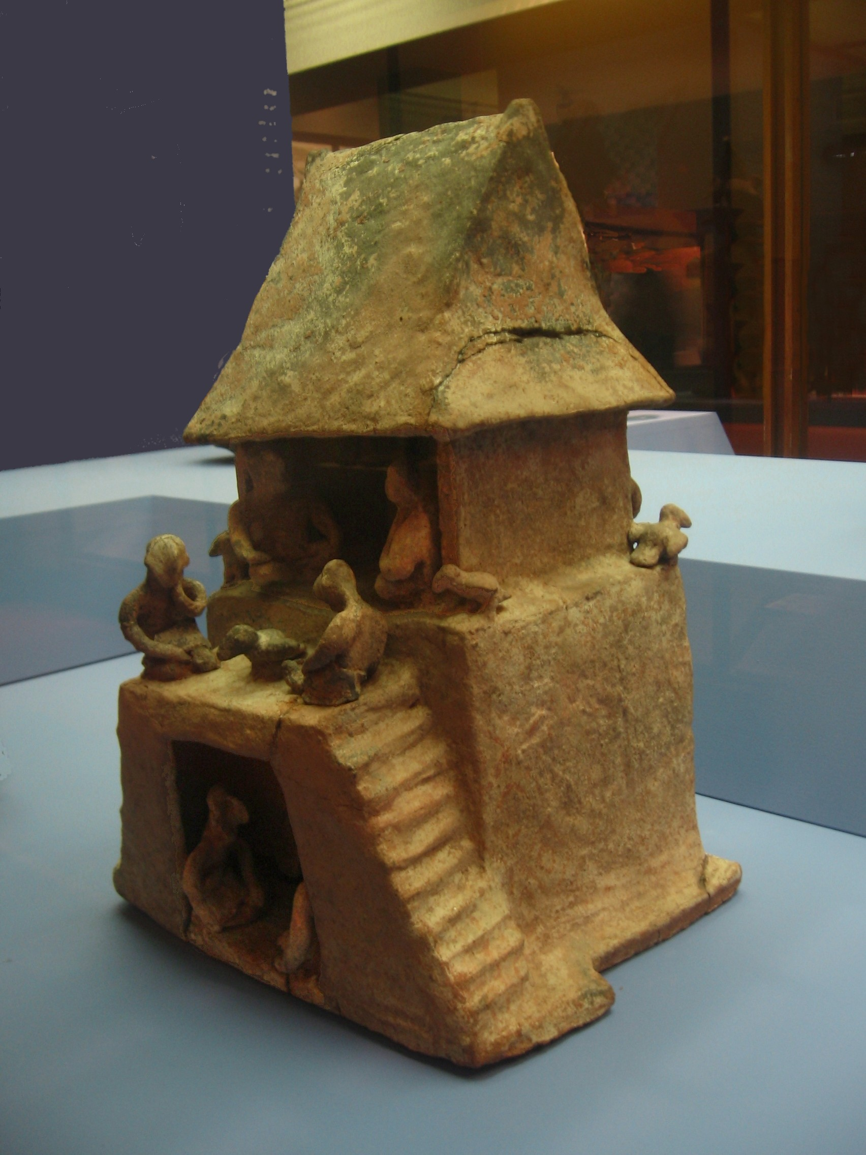 A model house from the Western Mexico shaft tomb tradition. Height: 40 cm.